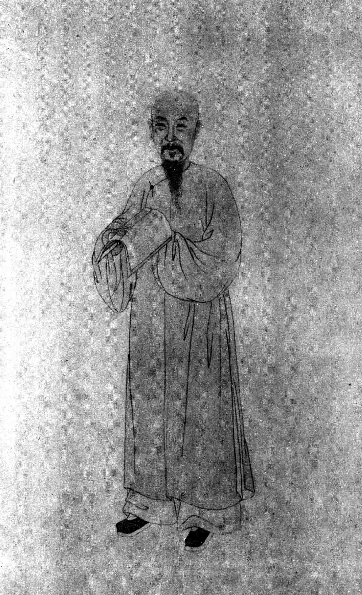 Yuan Mei, scholar of the Qing Dynasty.